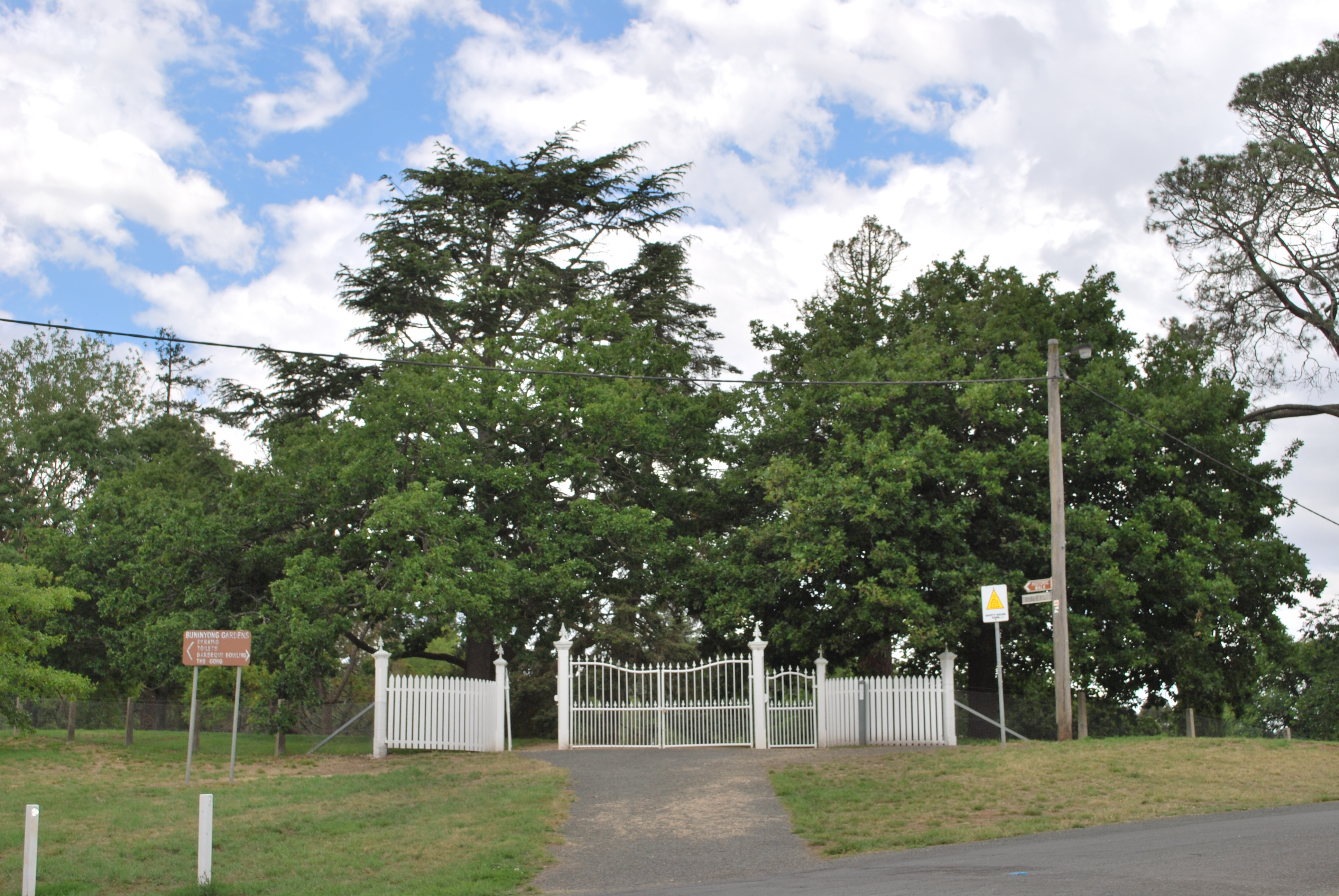 Gates of the botanical gardens at Buninyong, Victoria